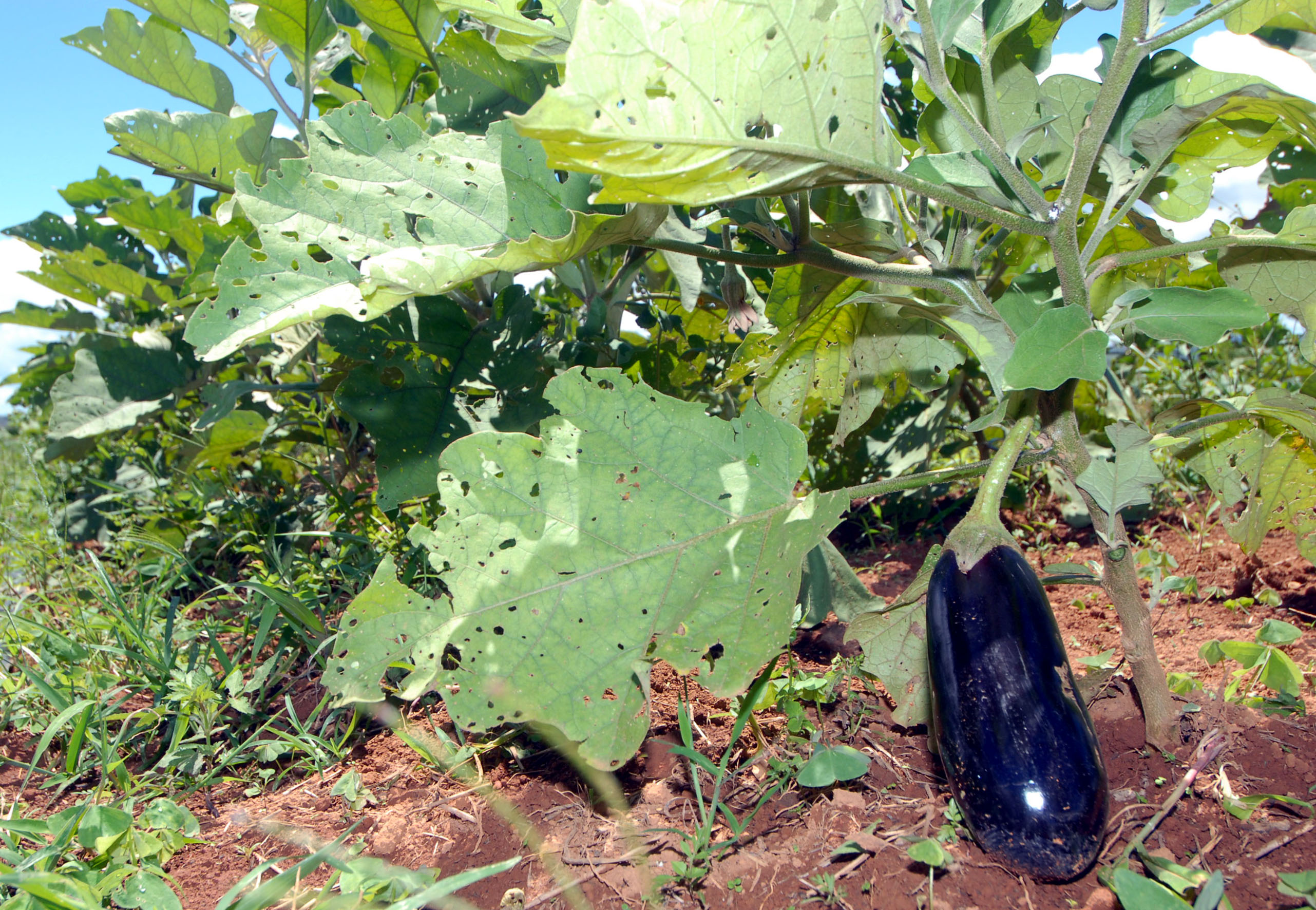 Eggplant in a organical plantation from Associação Mokiti Okada(MOA).